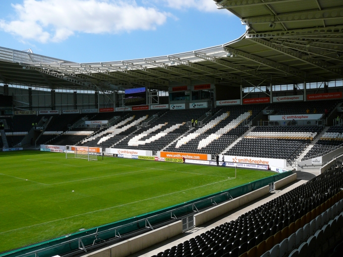 KC Stadium, Smith & Nephew North Stand